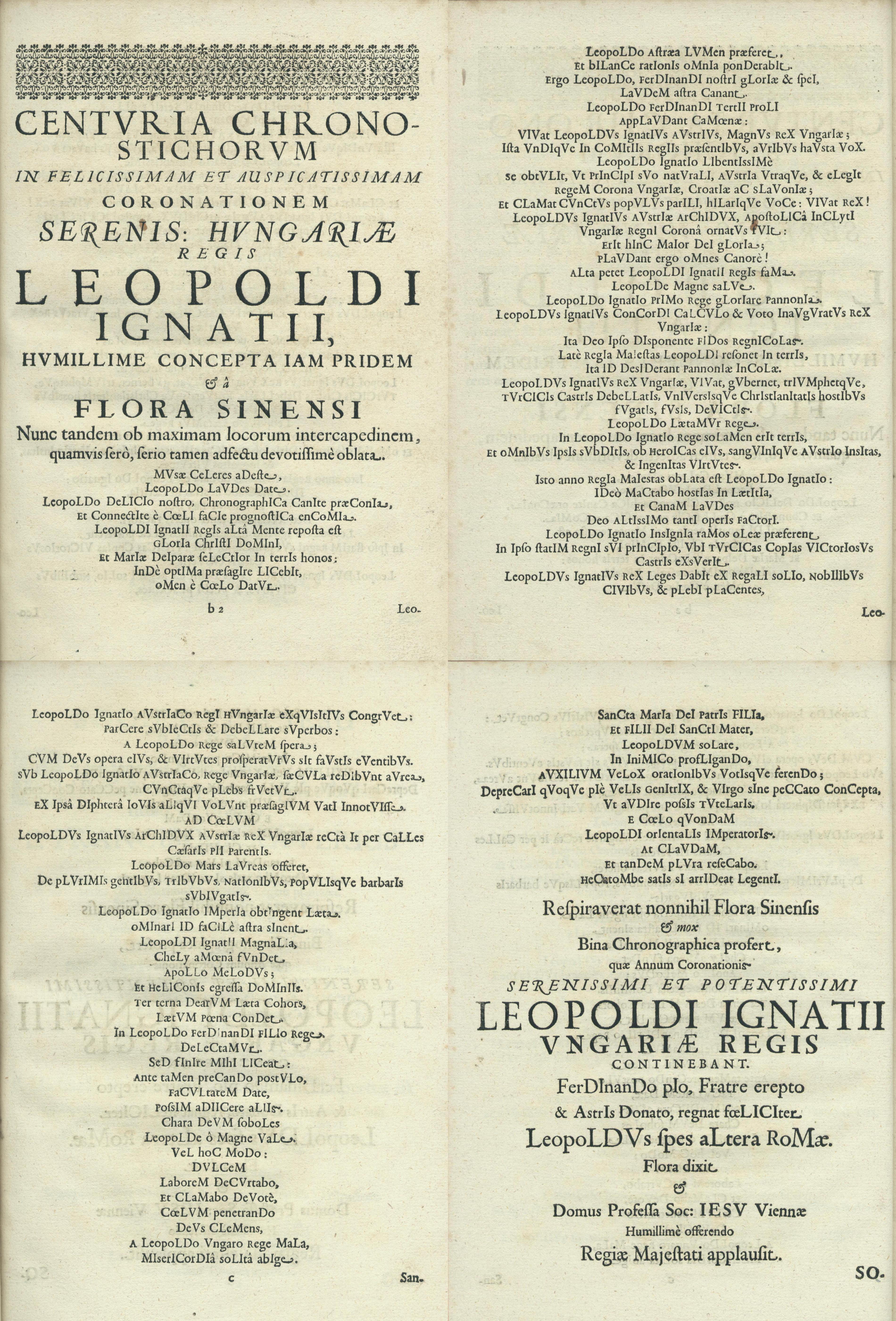 Four pages from Michał Boym's Flora Sinensis containing a Centuria chronostichorum where every line is a chronogram encoding the number 1655, the year of the coronation of emperor Leopold I as king of Hungary.